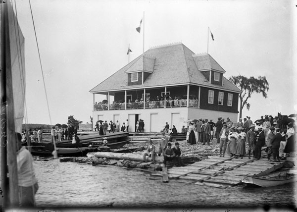 Britannia Boating Club now Britannia Yacht Club, Ottawa, Ontario, Canada 1896 by William James Topley. This image is available from Library and Archives Canada under the MIKAN ID number 3325416